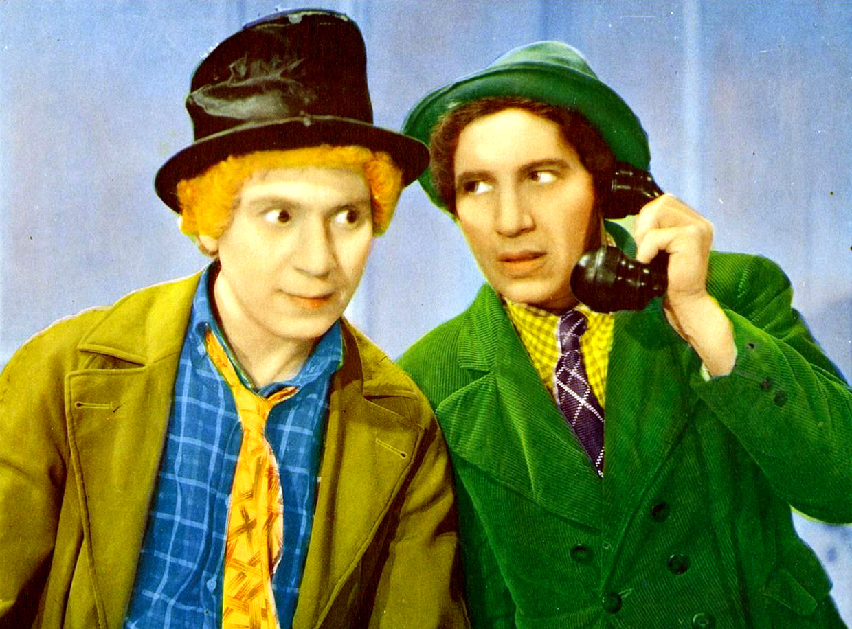 Cropped and edited lobby card for the 1937 film A Day at the Races. Pictured: Harpo and Chico Marx. Image is assumed to be in the public domain as no copyright notice is in evidence.